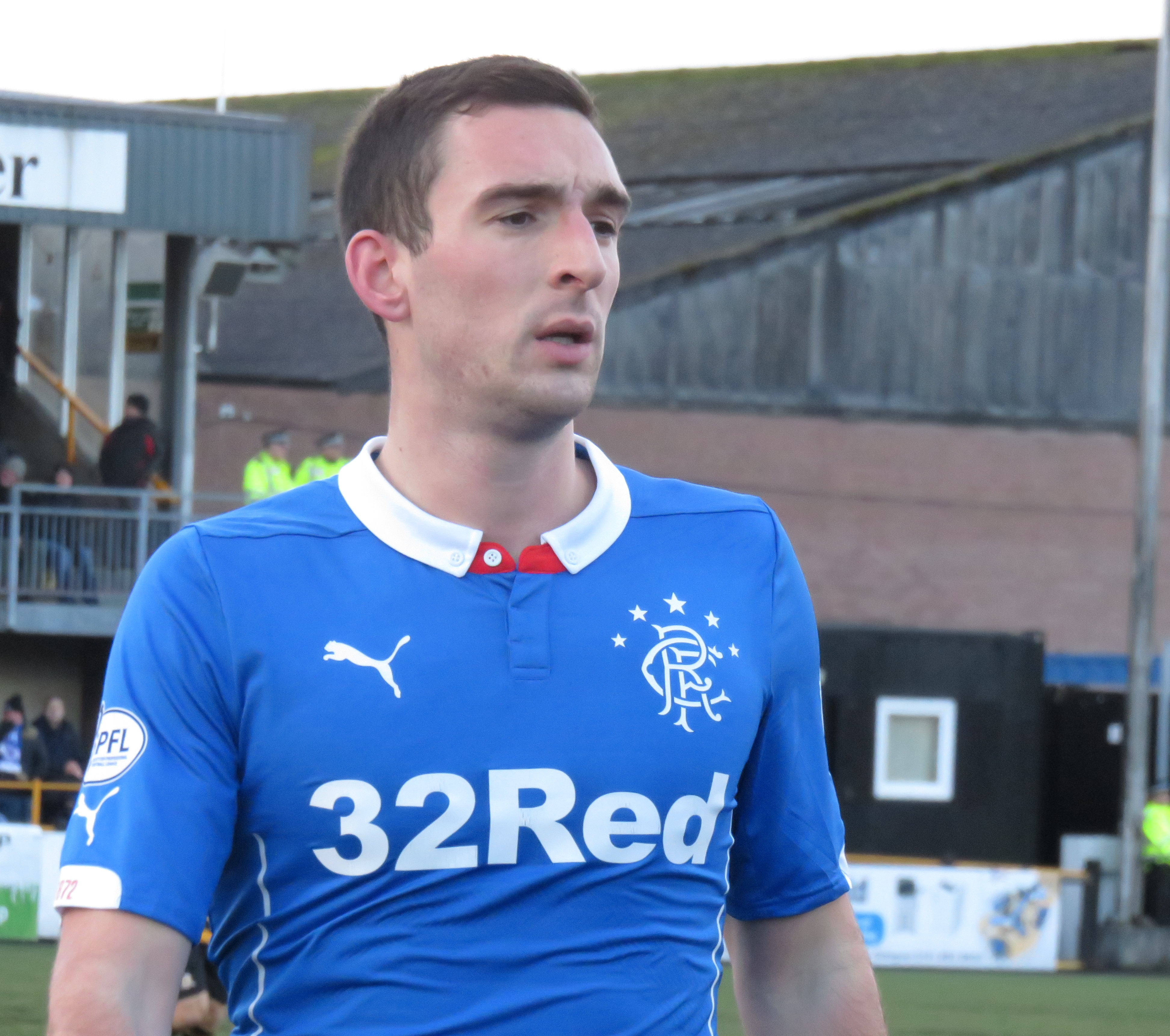 Lee Wallace playing for Rangers in 2015